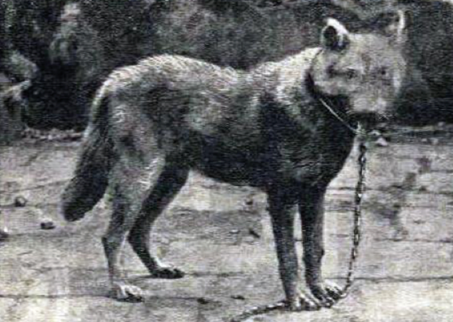 Only extant photograph of a live Sicilian wolf, shown here in captivity during the late 19th century.